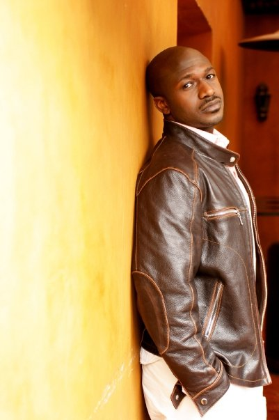 Andrew Ballen China Daily Photo